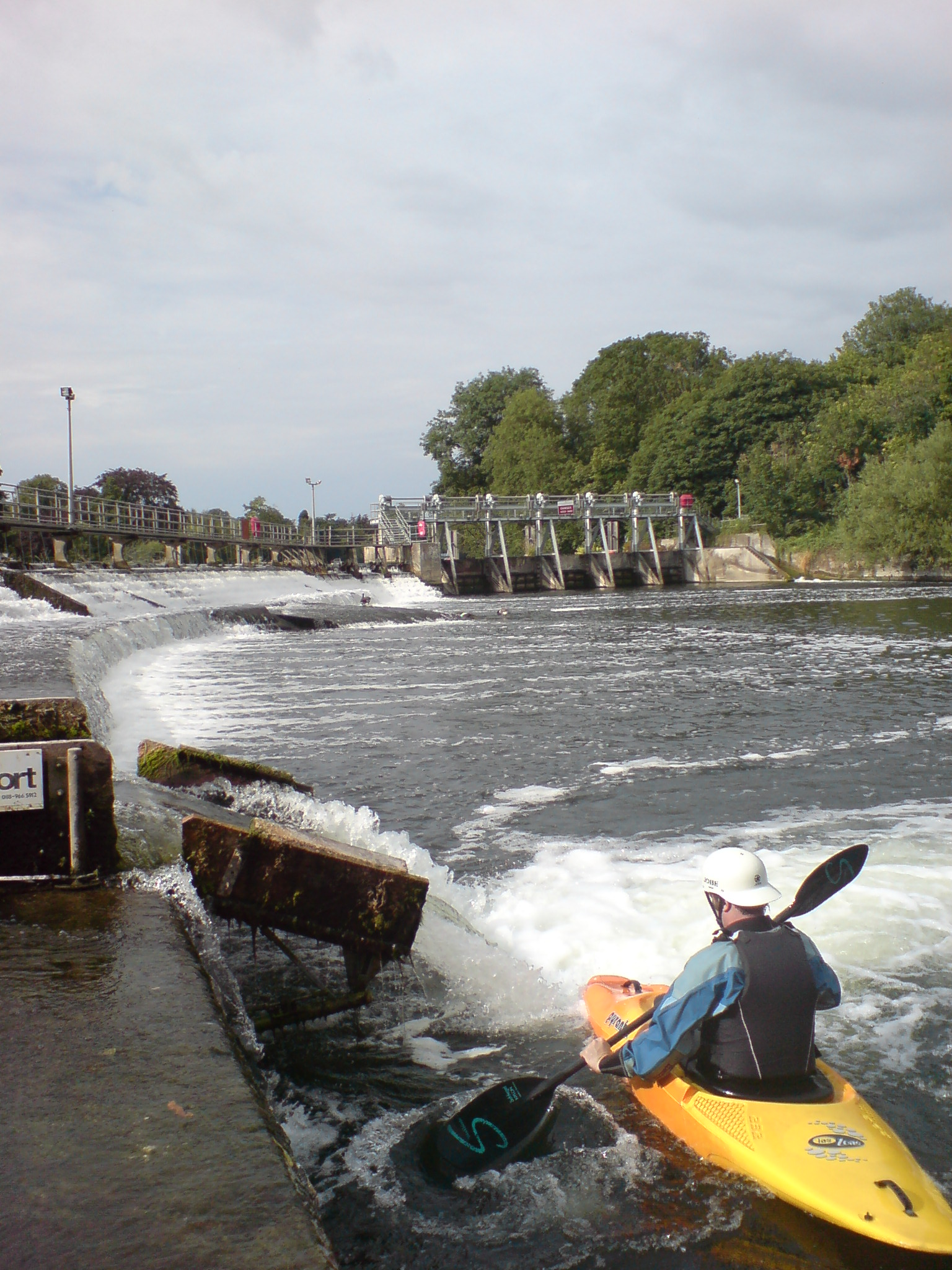 Picture taken by myself.